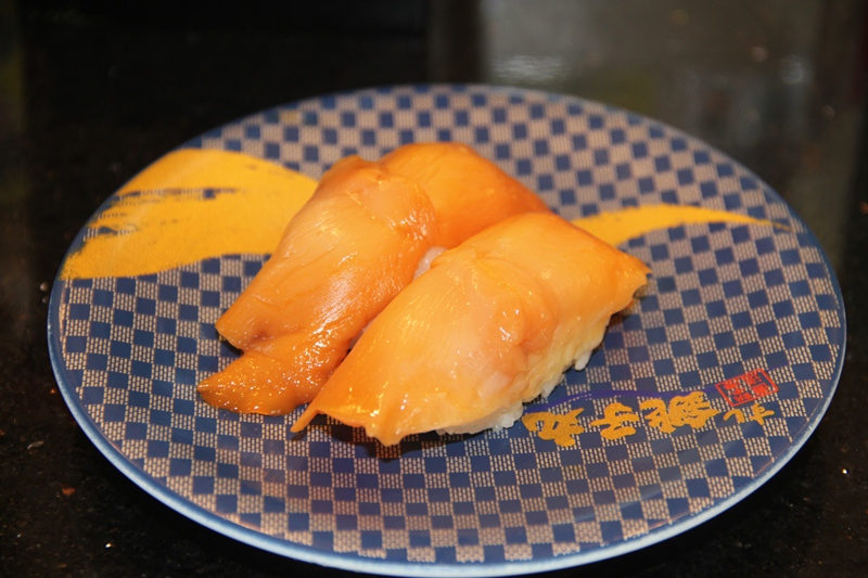 Akagai Nigirizushi